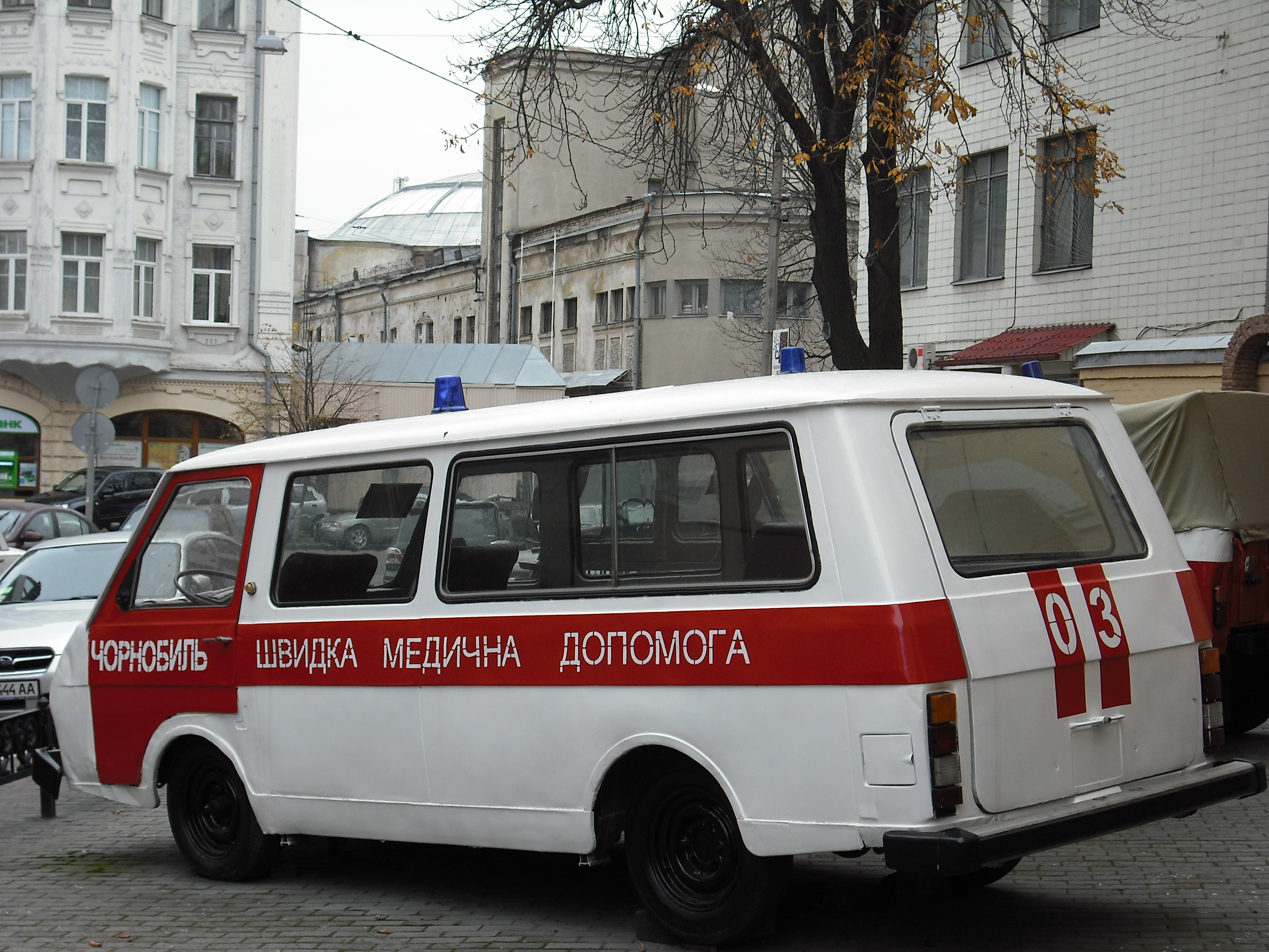 Kiev - Ukrainian National Chernobyl Museum - Red and white RAF-22031 ambulance, number 3